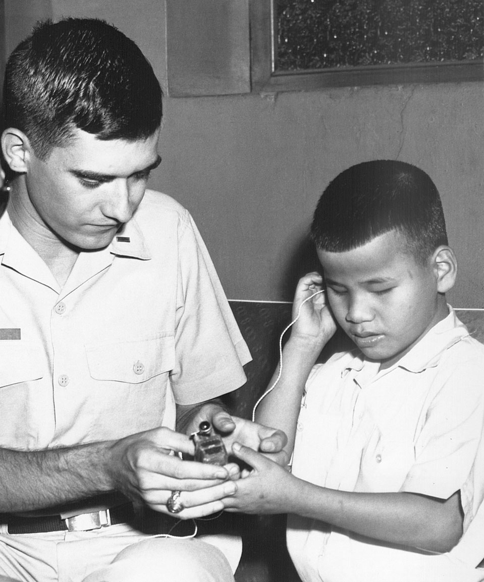 Air Force Second Lieutenant Forrest M. Mims explains his infrared obstacle-sensing device to nine-year-old Le Quang Manh of the Saigon School for Blind Boys. Mims invented the device while attending Texas A&M. (There was also a Saigon School for Blind Girls.)